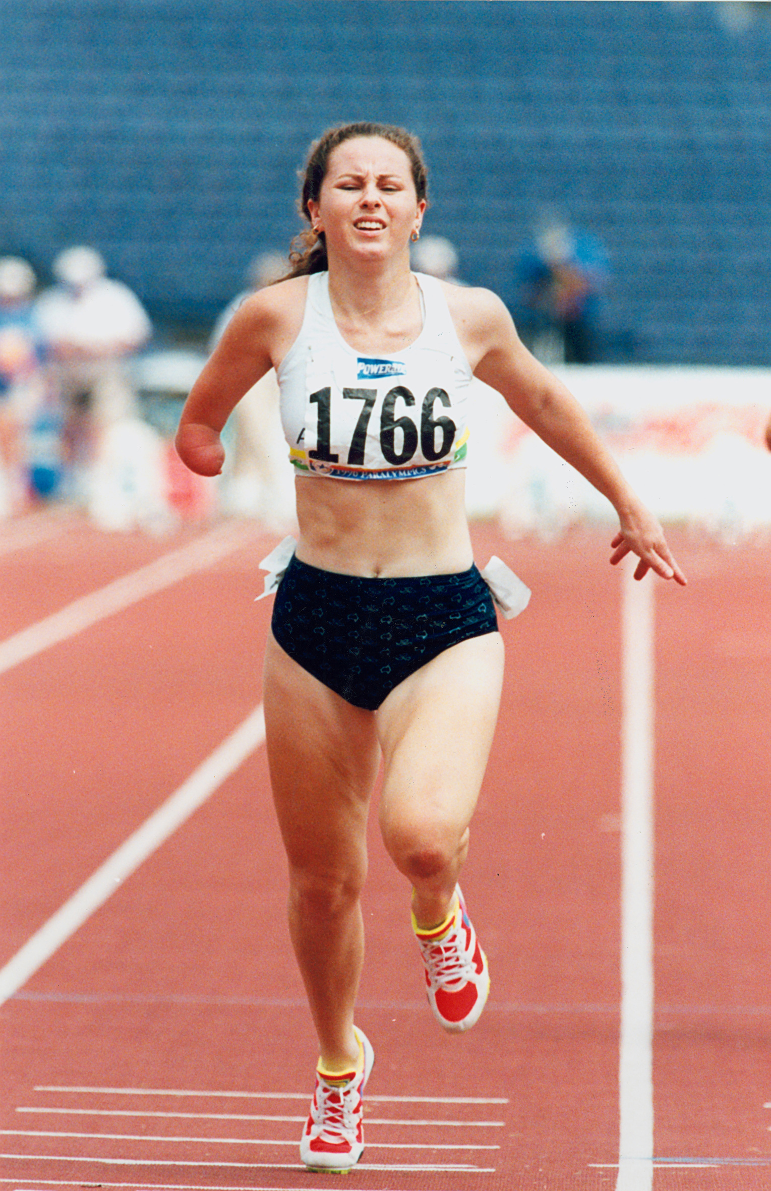 Australian athlete Amy Winters won gold in the T46 200m at the 1996 Atlanta Paralympic Games